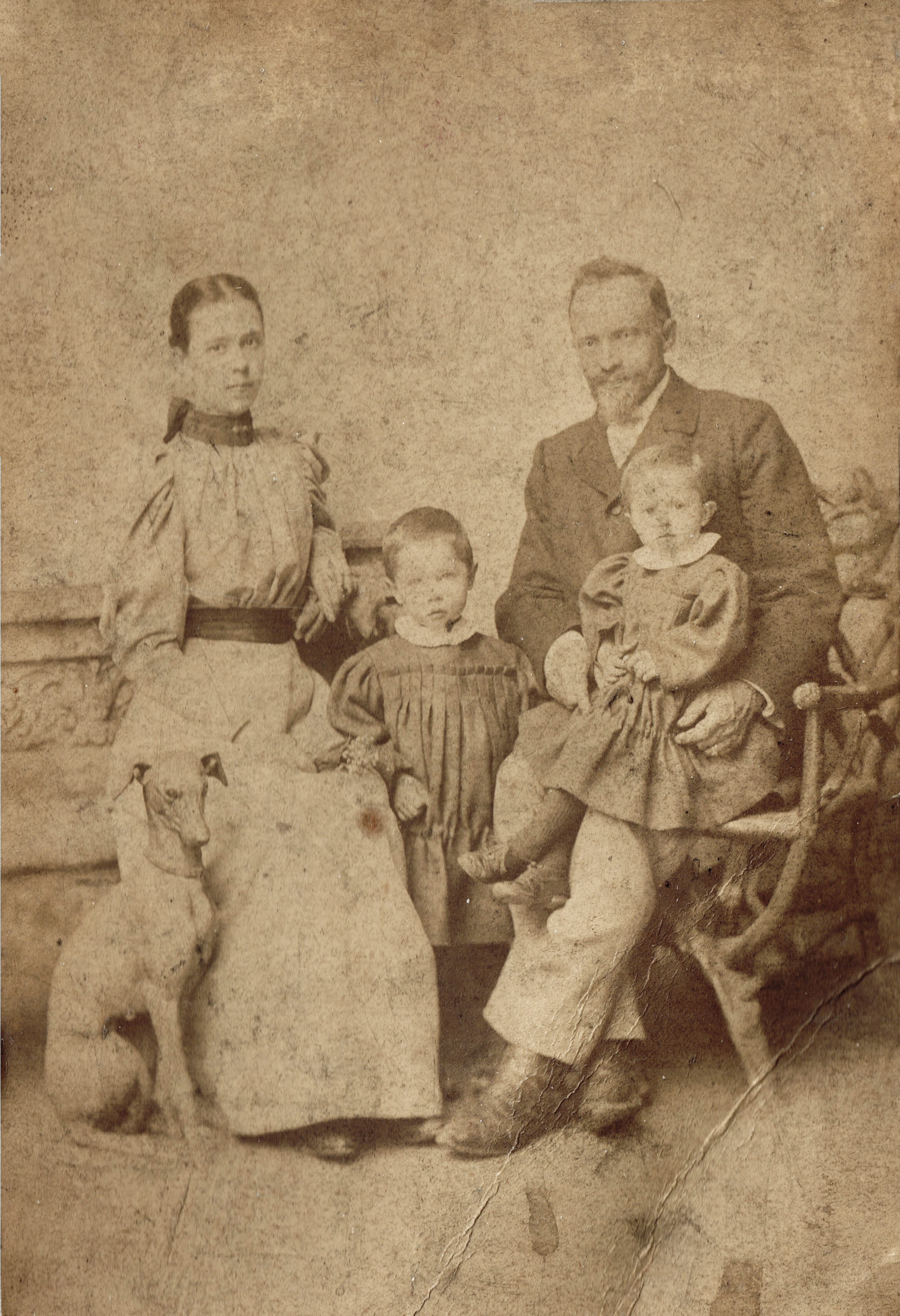 Franciszek Vetulani and Katarzyna née Ipohorska-Lenkiewicz with their children Stanisław and Zofia. J. Sebald atelier, Kraków.